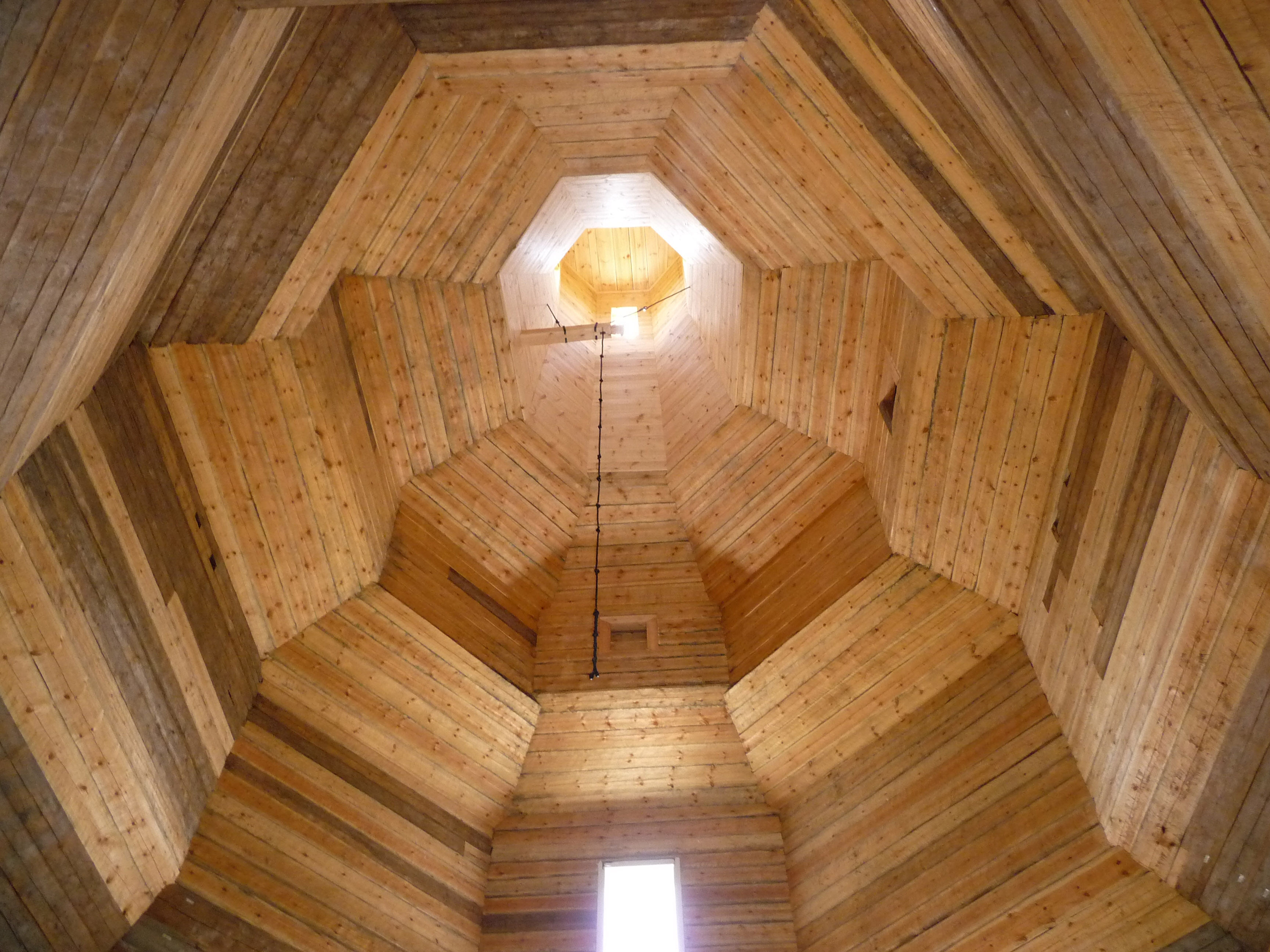 Interior of the Church of Elijah the Prophet in_Tsipino_Pogost. About Ferapontov Monastery, Vologodskaya oblast, Russia